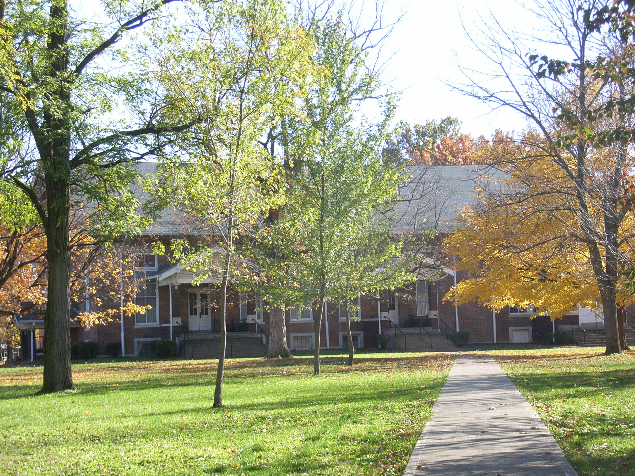 Friends Meeting in Plainfield, Indiana, dates back to 1858.